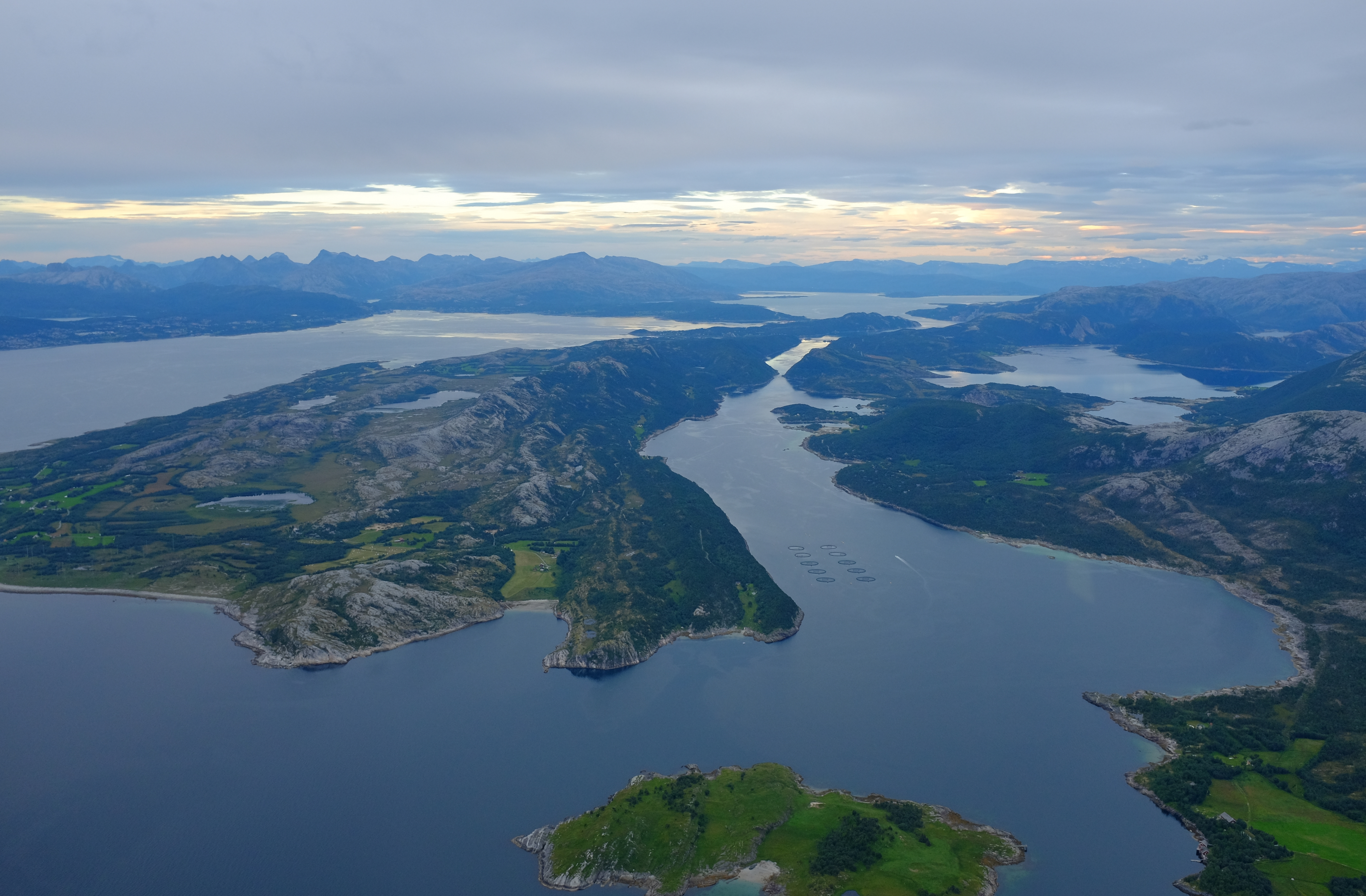 Straumøya just south of Bodø city in Nordland.